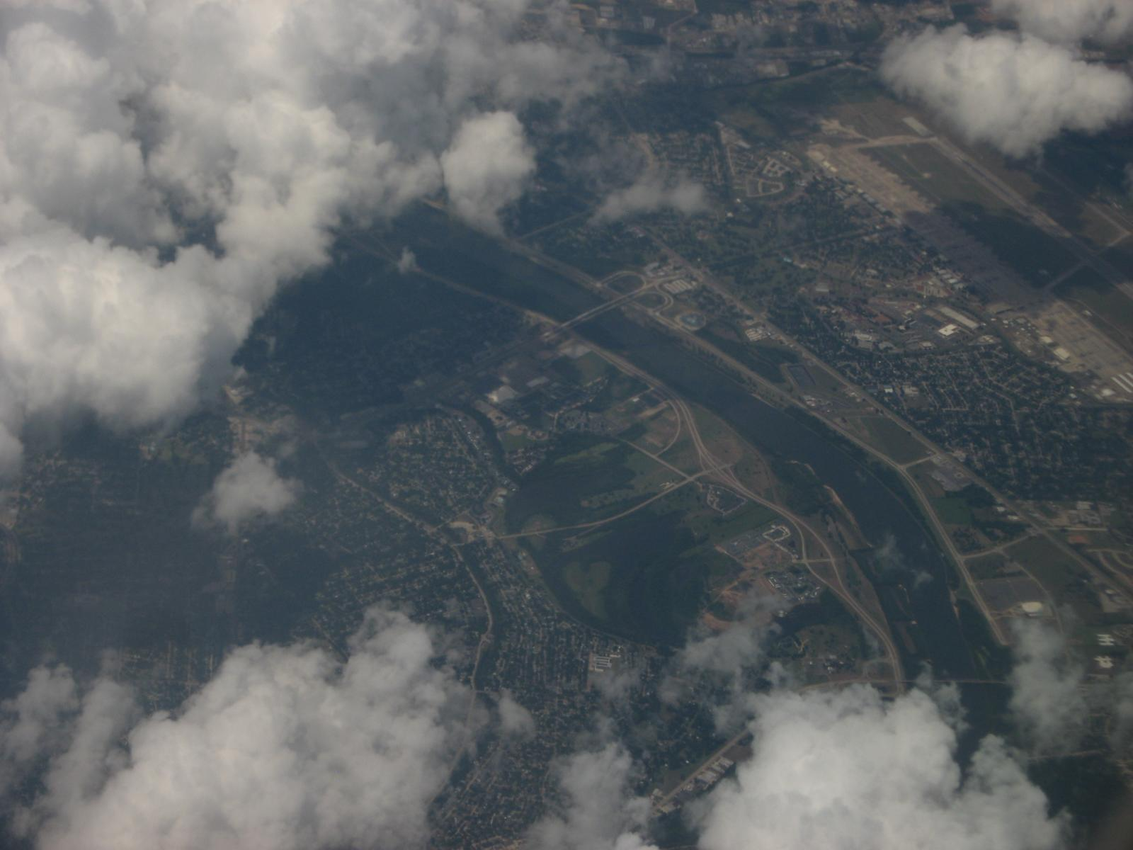 Shreveport is the third largest city in the state of Louisiana and the 109th-largest city in the United States. It is the seat of Caddo Parish and extends along the Red River (most notably at Wright Island, the Charles and Marie Hamel Memorial Park, and Bagley Island) into neighboring Bossier Parish. Bossier City is separated from Shreveport by the Red River. The population of Shreveport was 199,311 at the 2010 census, and the Shreveport-Bossier City Metropolitan Area population exceeds 441,000. The Shreveport-Bossier City Metropolitan Statistical Area ranks 112th in the United States, according to the United States Census Bureau. Shreveport was founded in 1836 by the Shreve Town Company, a corporation established to develop a town at the juncture of the newly navigable Red River and the Texas Trail, an overland route into the newly independent Republic of Texas and, prior to that time, into Mexico. Shreveport is the commercial and cultural center of the Ark-La-Tex region, where Arkansas, Louisiana, and Texas meet. Many people in the community refer to the city of Shreveport as "The Port City".